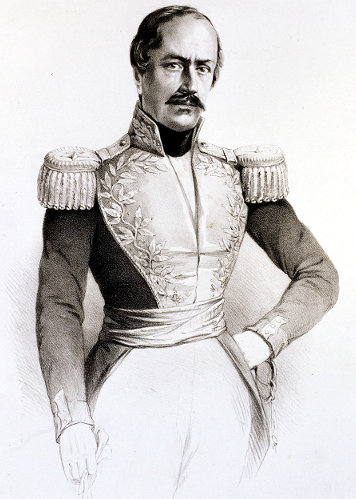 General José María Obando, President of Colombia